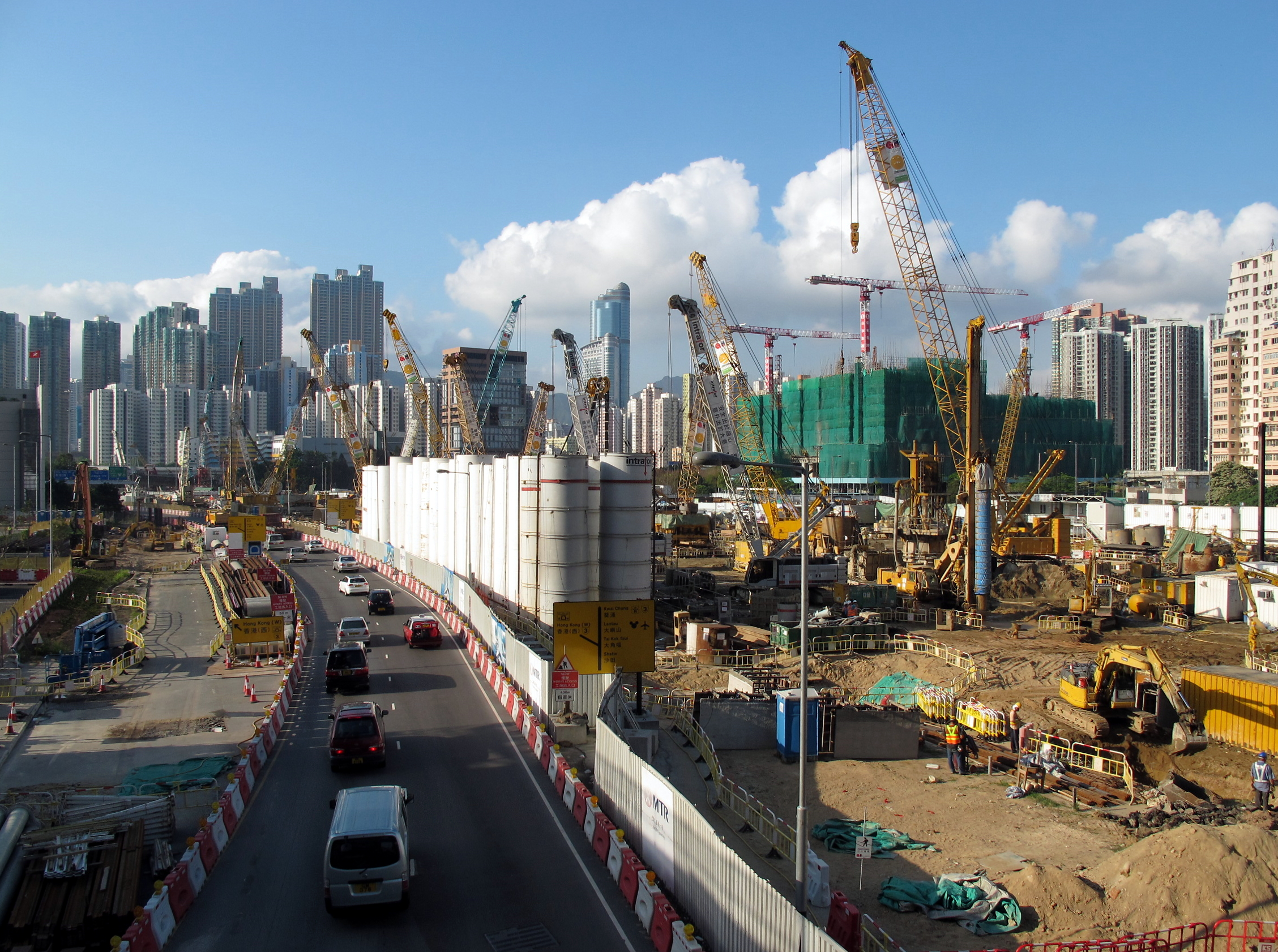 West Kowloon Terminus Construction Site